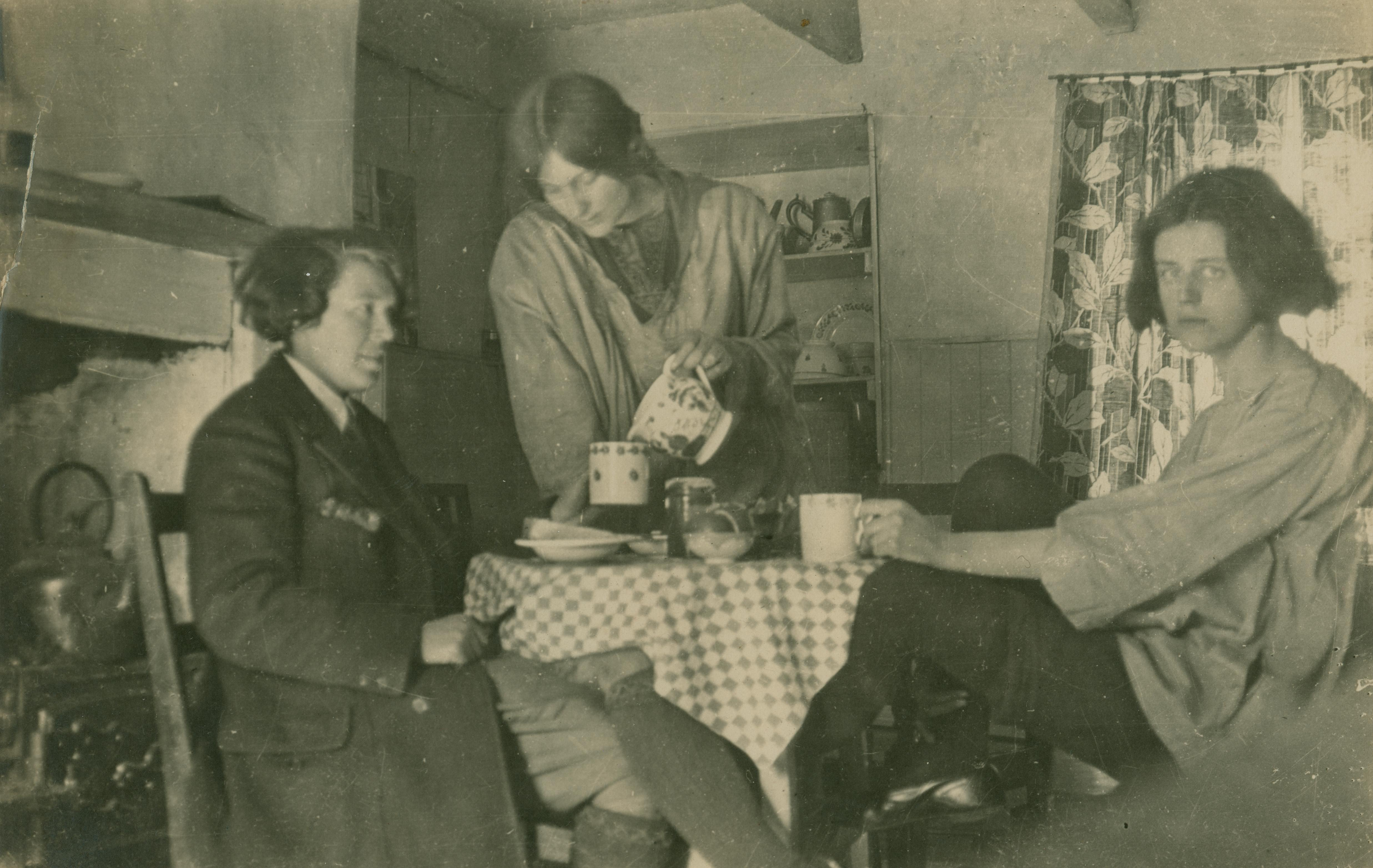 Vera Jack Holme, 1918 - She is to left and the artist and her lover Dorothy Johnstone is standing ref 7vjh 5 1 33